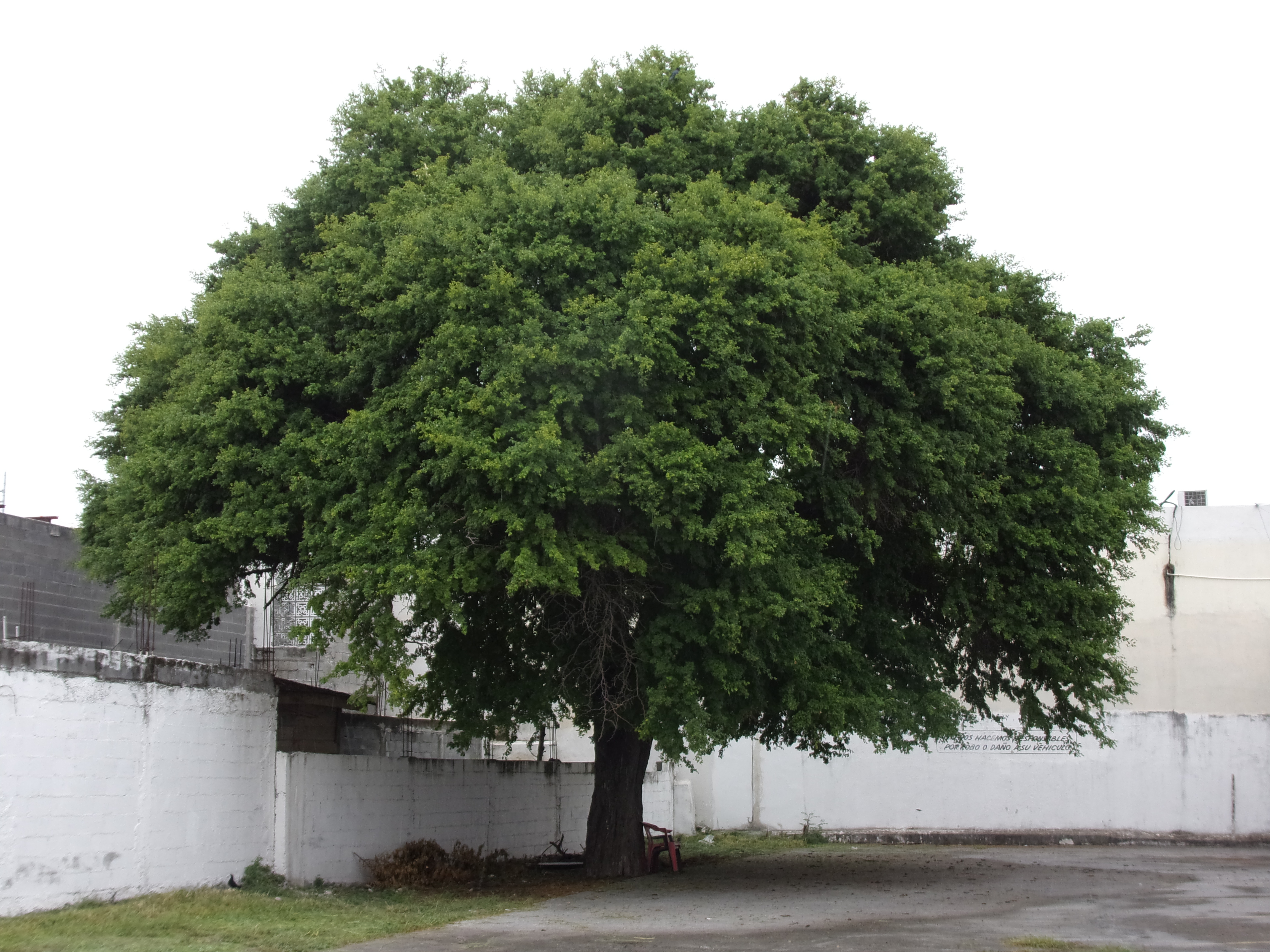 Mature sample of Texas Ebony tree (Ebenopsis ebano) in downtown Matamoros, Tamaulipas, Mexico. Notice the plastic chair by the trunk to get a sense of scale.